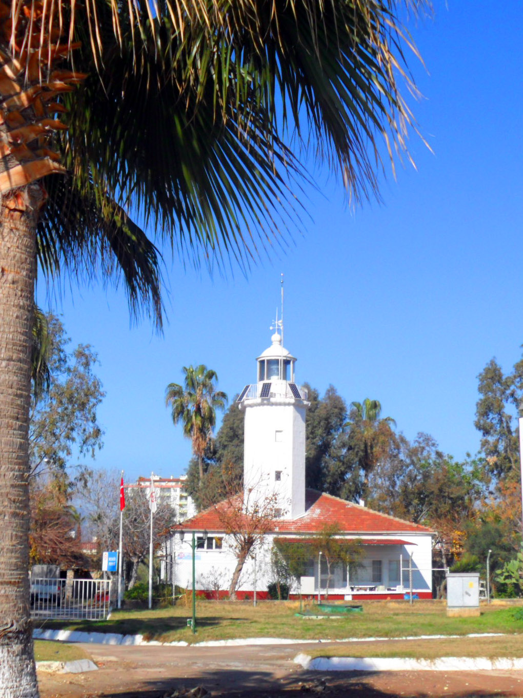 Mersin lighthouse